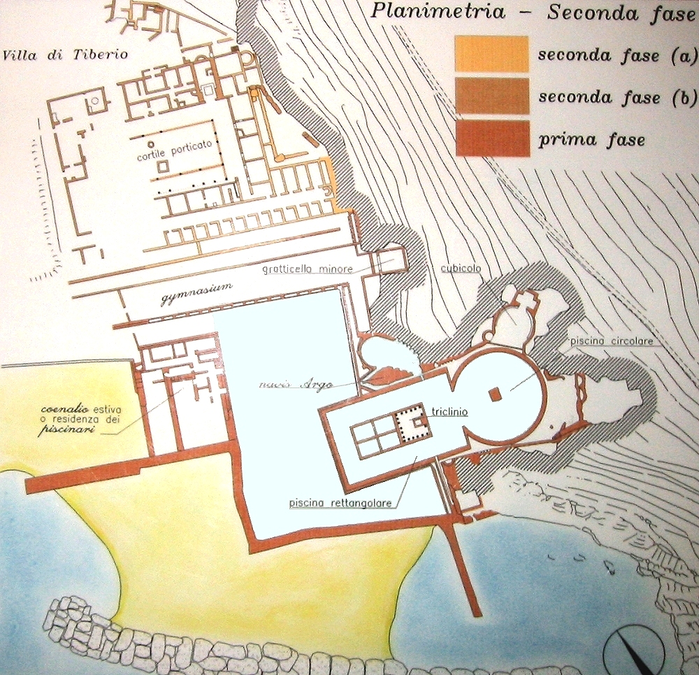 Plan of the 'Villa Di Tiberio' near Sperlonga, Italy.